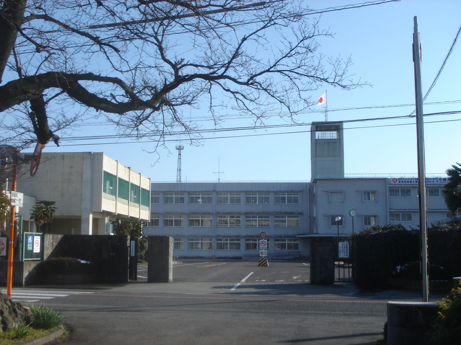 Gifu_National_College_of_Technology(岐阜工業高等専門学校),Motosu,Gifu,Japan(岐阜県本巣市上真桑)で撮影。手前を横切る道路はw:ja:国道303号。